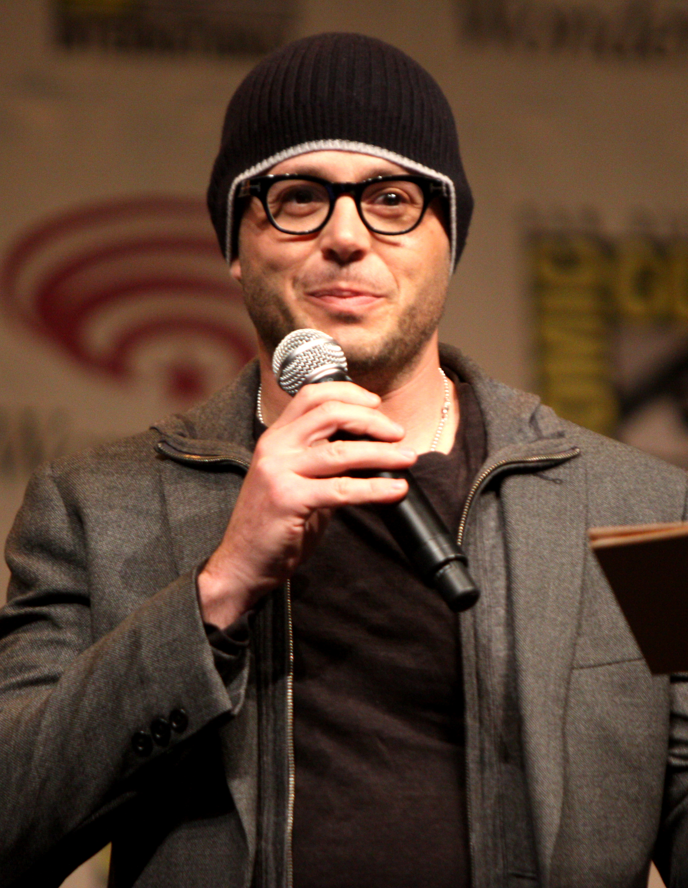 Damon Lindelof speaking at Wondercon 2012 in Anaheim, California on March 17, 2012.